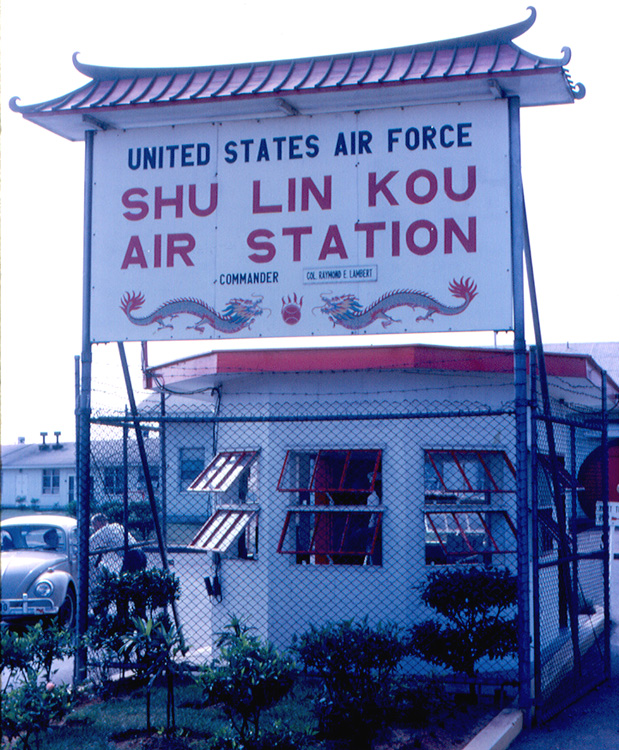 The entrance to Shu Lin Kou Air Station, near Taipei, where my brother David was stationed in 1967. It is about 20 miles (32 km) from Taipei by road. David is driving the 1960 Volkswagen at left, which I had sold to him in 1963. This photo is geotagged with the approximate location.